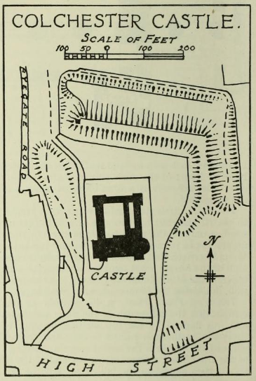 Plan published in 1916 of the surviving earthworks enclosing the keep at Colchester Castle, Essex.